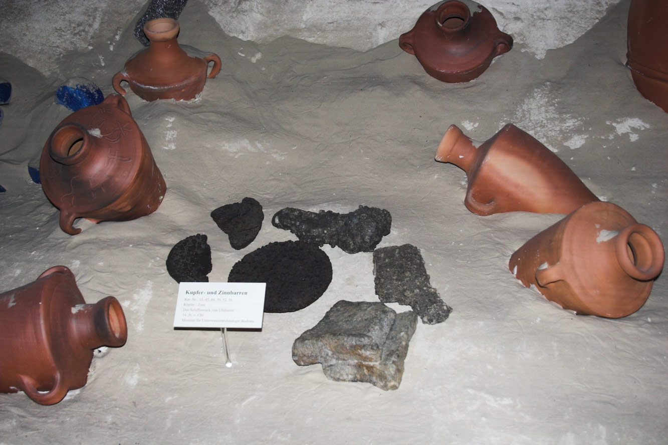 Information Description: Scenery with replica and original artefacts from the Uluburun exhibition at Bochum Source: own work Date: June 2006 Author: Martin Bahmann